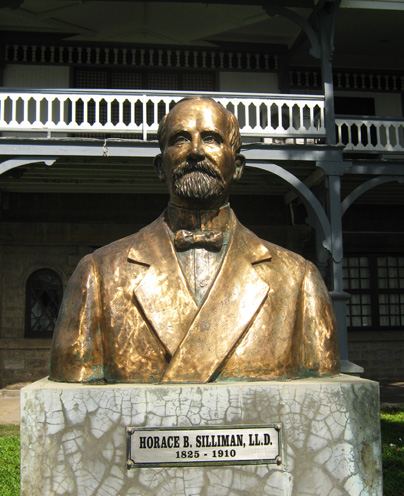 Bust of Horace B. Silliman on the Silliman University grounds, Dumaguete City, Philippines